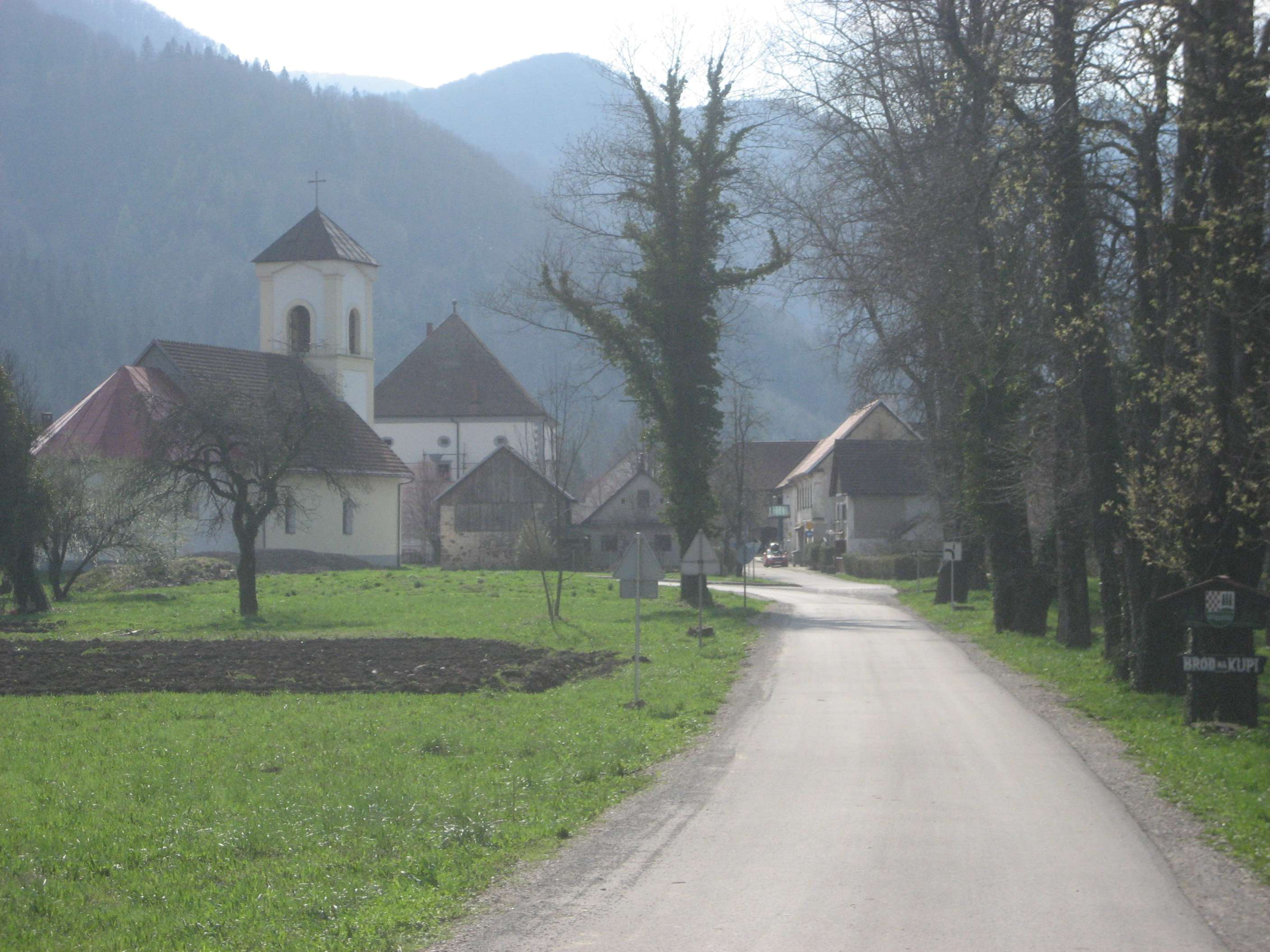 Village Brod na Kupi, Croatia